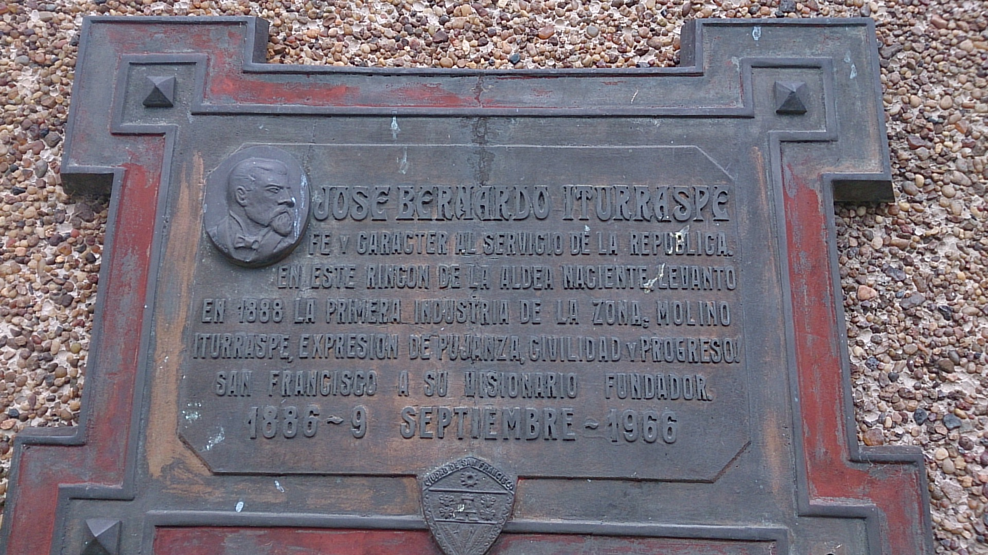 Placa de monumento a Iturraspe.